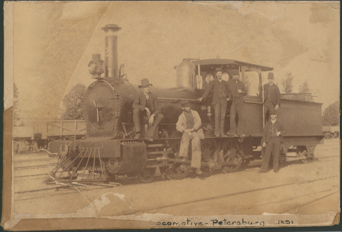 A 3'6" locomotive, U class, at Peterborough (then Petersburg) 1891. The photograph shows the locomotive with six men sitting or standing near it.